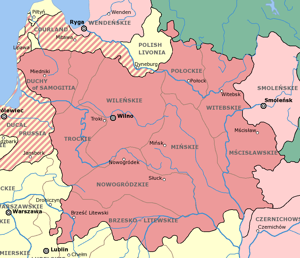 Map of Grand Duchy of Lithuania, 1771 AD